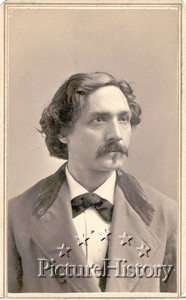 Photograph of Edward Mollenhauer